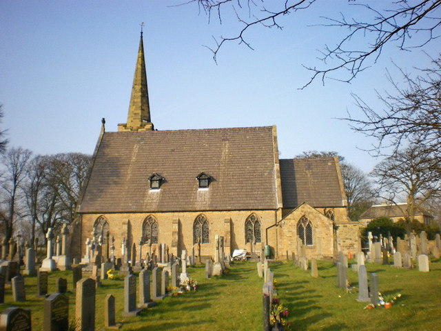 The Parish Church of St Leonard, Balderstone